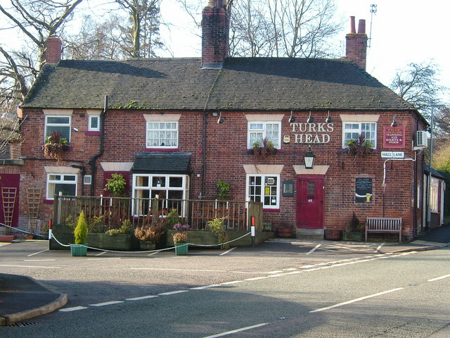 The Turks Head public house, at the corner of Hall Lane, Donisthorpe, Leicestershire